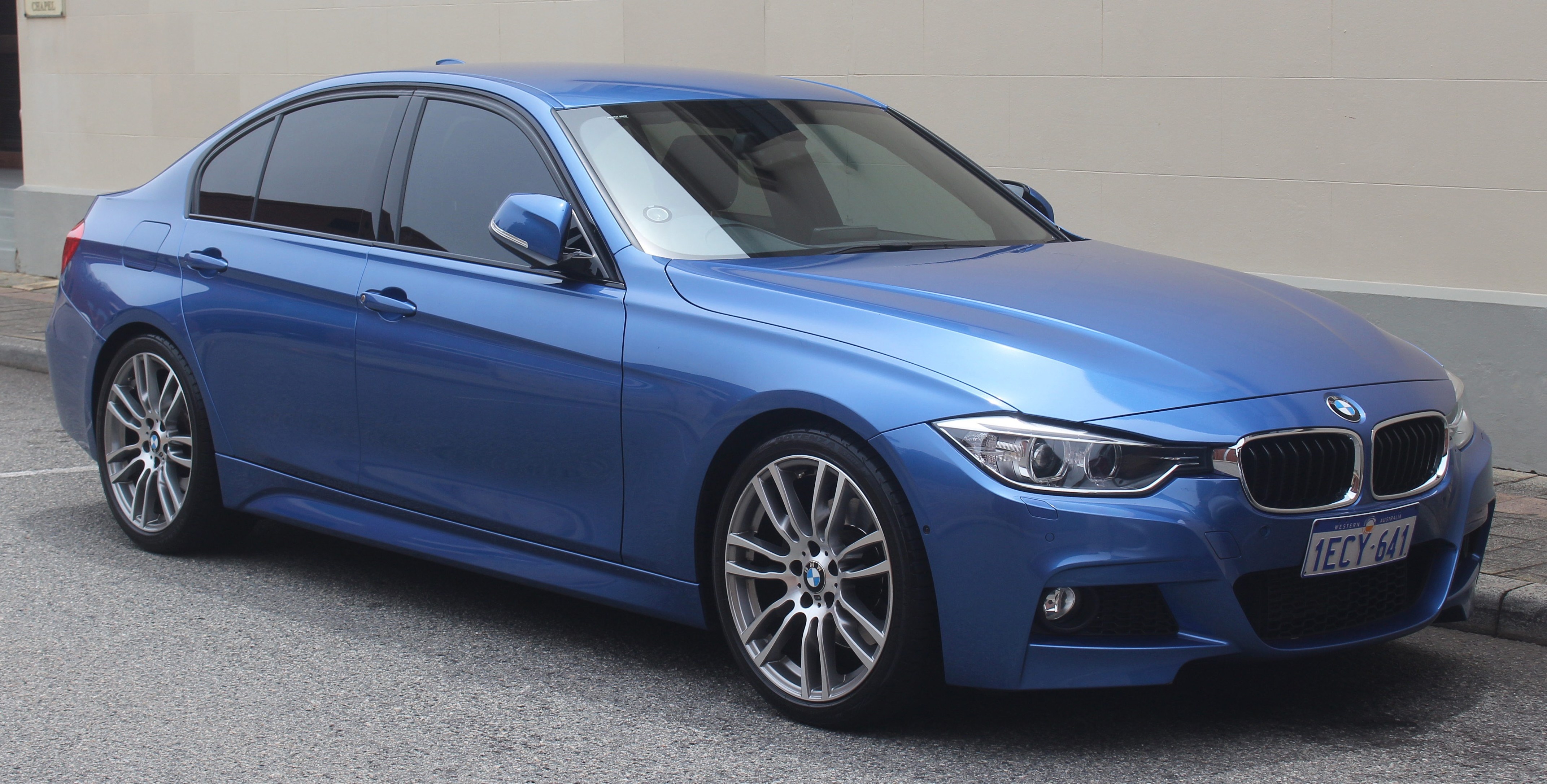 2013 BMW 328i (F30) M Sport sedan. Photographed in Fremantle, Western Australia, Australia.